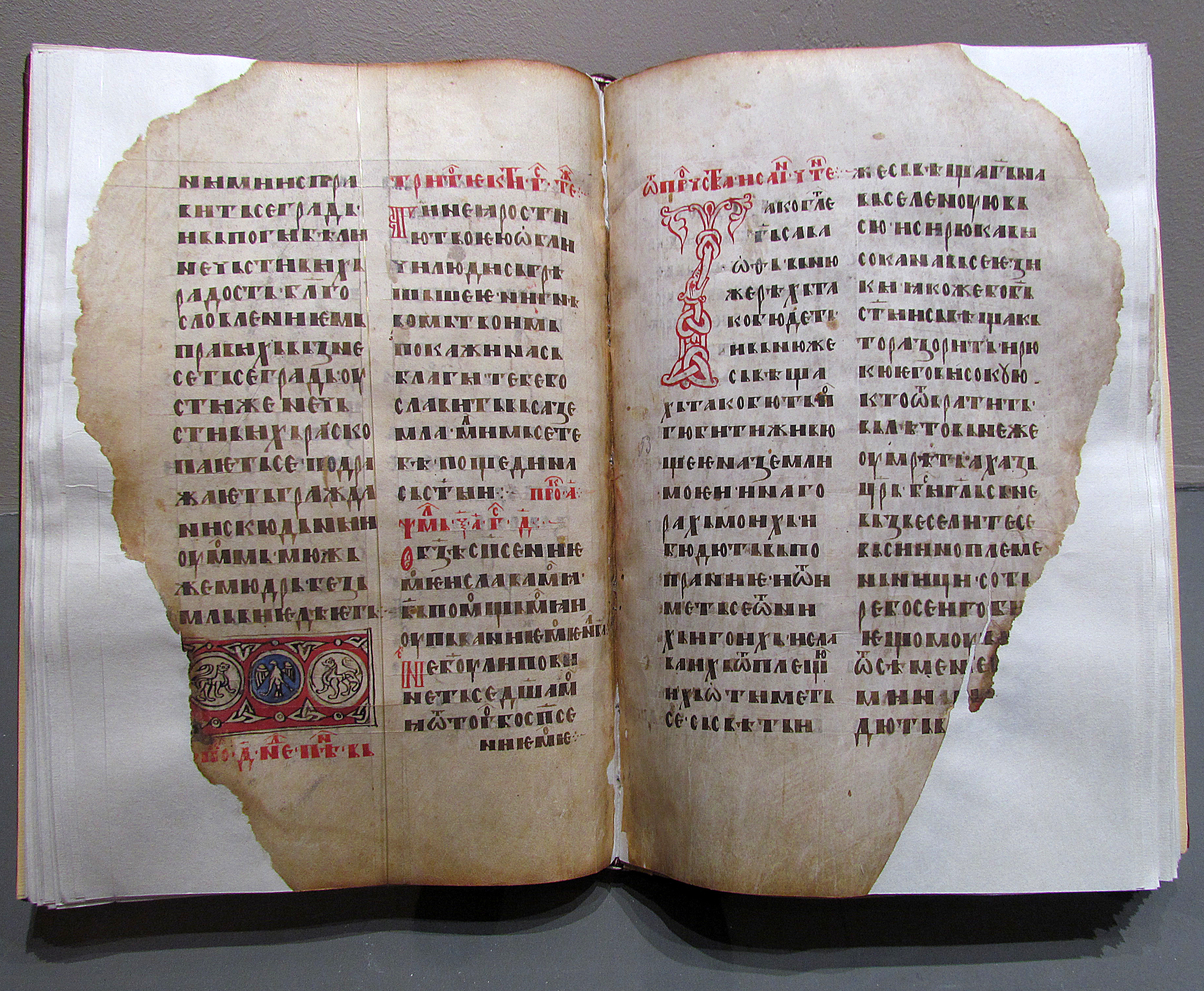 Belgrade Prophetologion, manuscript from Ras 13th century, National Library of Serbia